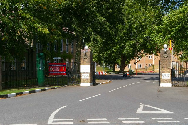 Carver Barracks nee RAF Debden. This is Carver Barracks it occupies the site of the former RAF Debden. It became operational in April of 1937. It was a sector airfield of 12 Group during the Battle of Britain and was home to one of the "Eagle Squadrons" of American volunteer RAF pilots. The RAF vacated and USAAF took up residence in 1942. The base remained in RAF service until 1975 as can be guessed from the photo the 33rd Engineer Regiment now in residence are concerned with bomb disposal. To go to the next field in an alphabetical tour of Essex WW2 airfields click on 149989. Much information was gleaned from Graham Smith’s book “Essex Airfields In The Second World War”.